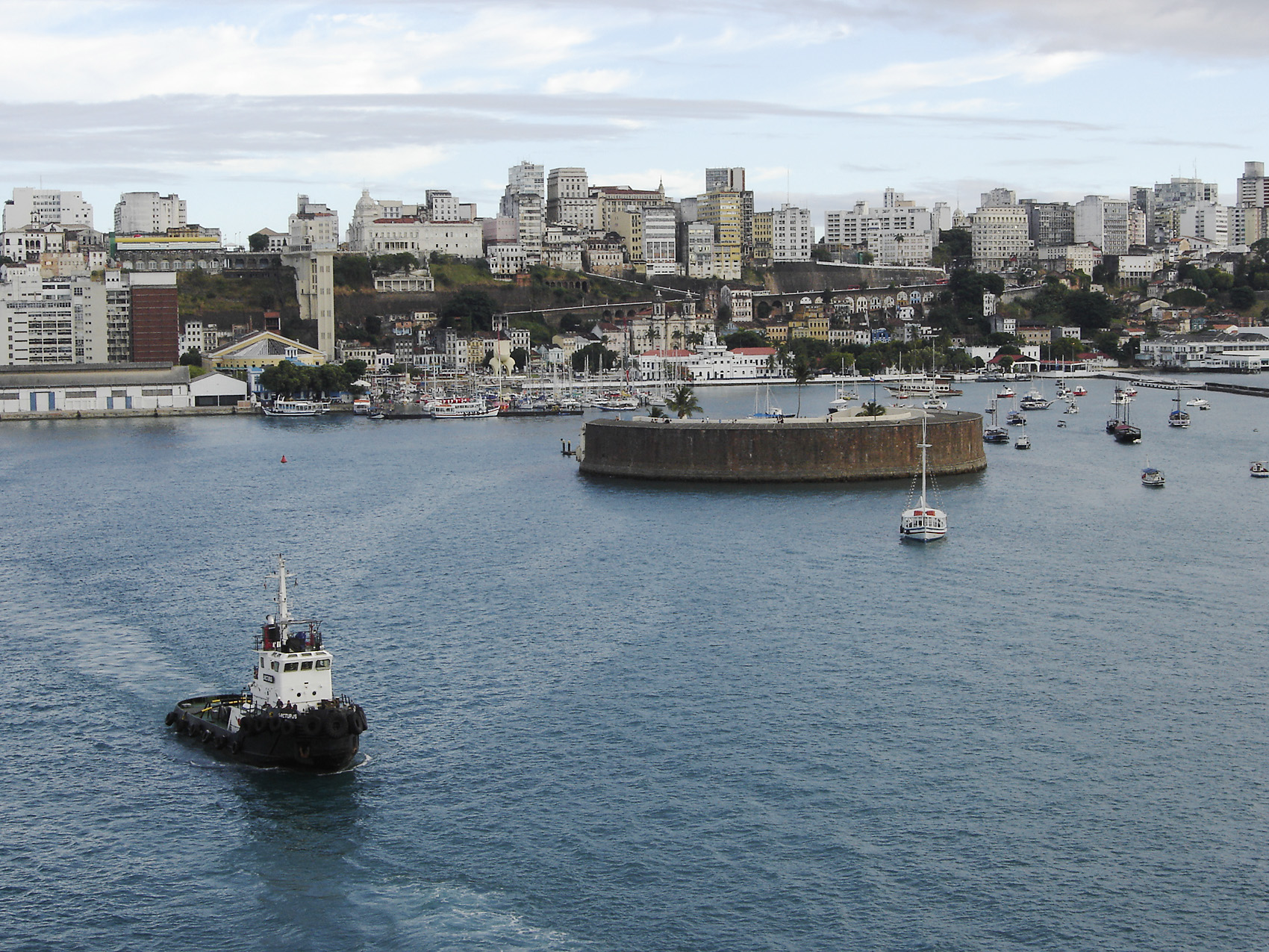 Salvador, Bahia : view from the sea of the downtown with the São Marcelo fort, the marina, the Mercado Modelo and the Lacerda elevator.